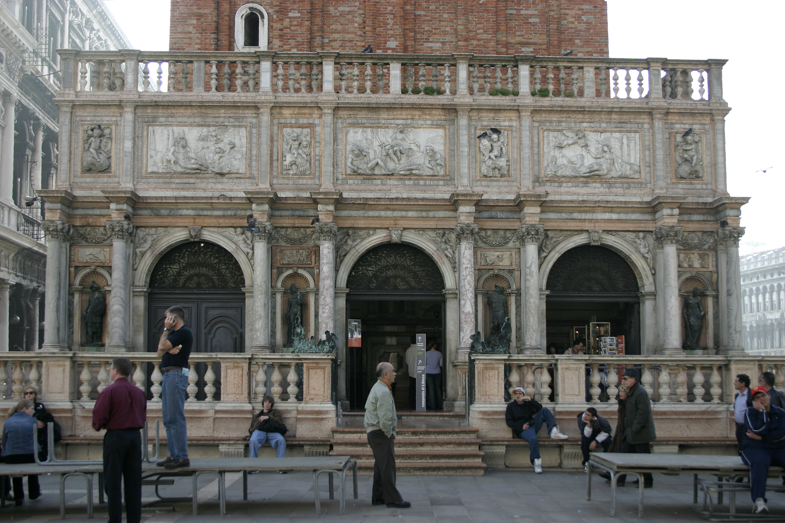 Venice - Sansovino’s Loggetta in the San Marco square